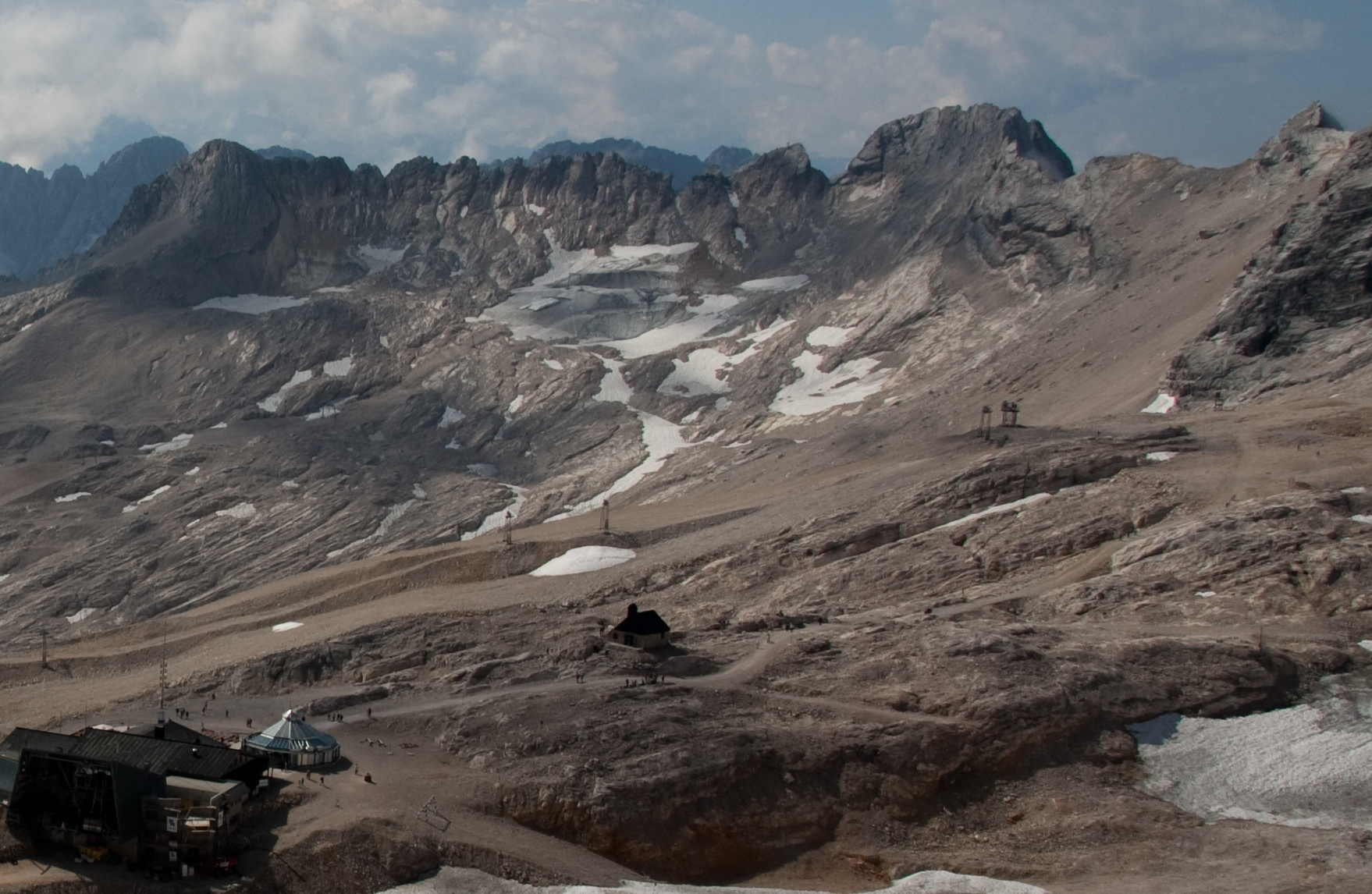 In the background: Wetterwandeck, Östliche Wetterspitze, Mittlere Wetterspitze and Nördliche Wetterspitze.